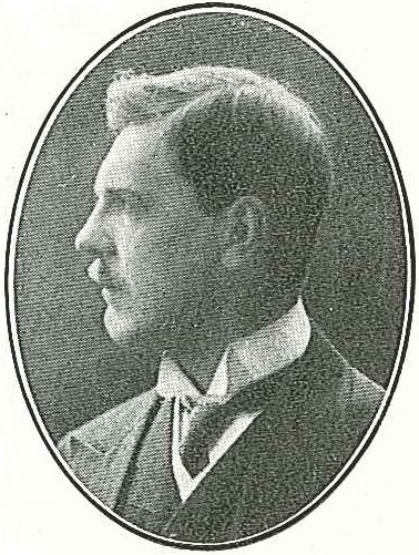 Harald André (1879-1975), Swedish musician, newspaper editor, opera director and head of the Royal Swedish Opera 1938-1949.